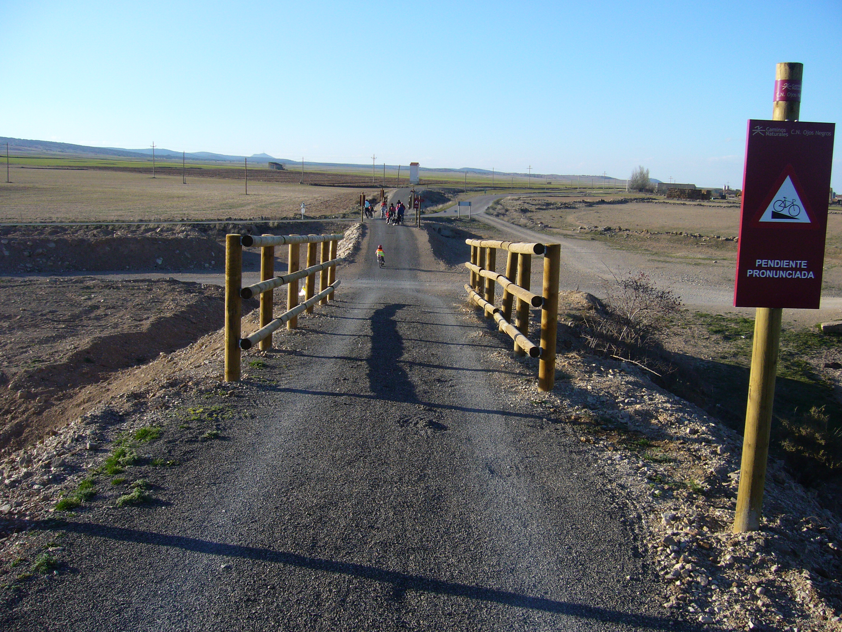 view of the railway Ojos Negros